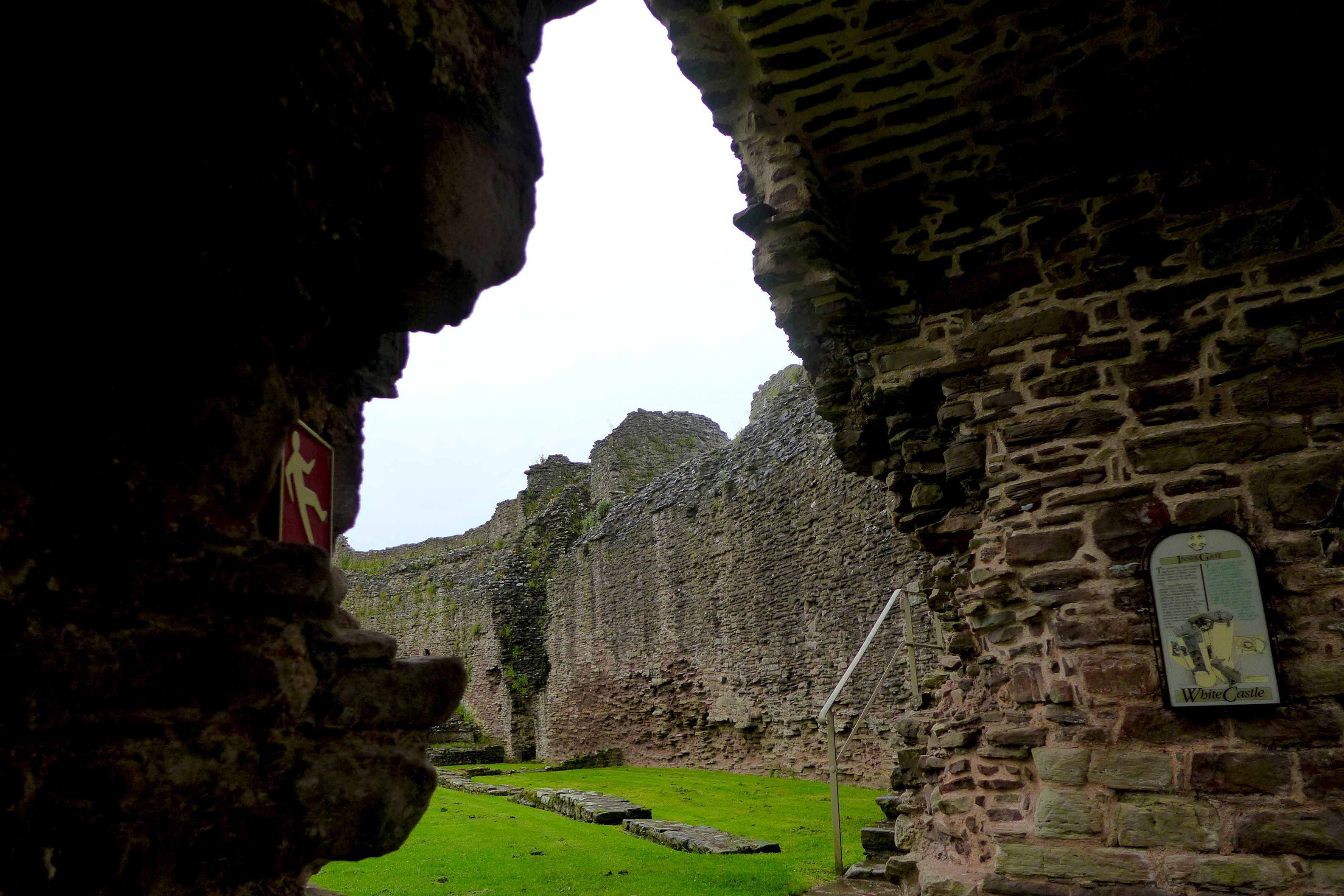 White Castle, Monmouthshire